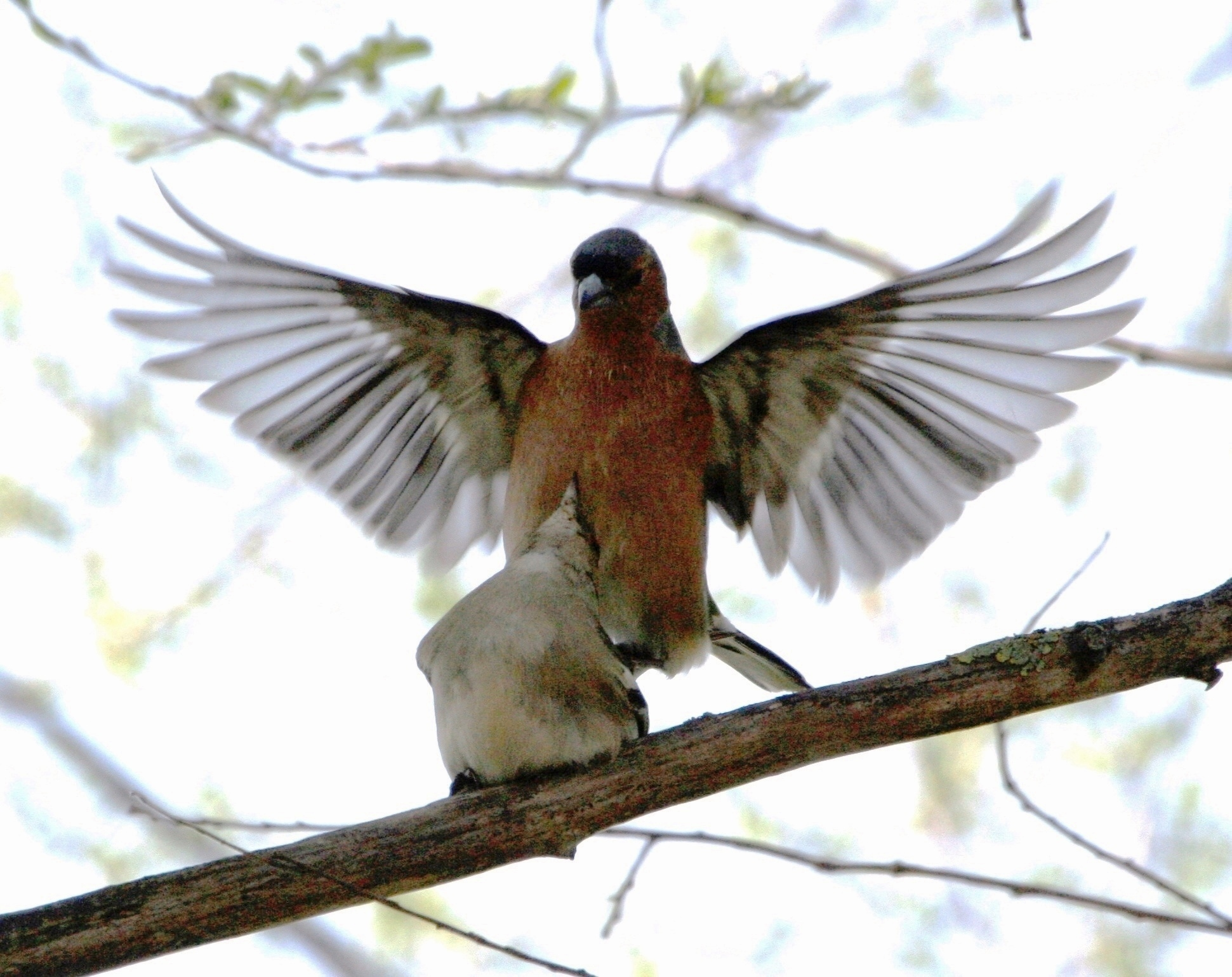 Chaffinches mating in a hedgerow in fields near Olching in Bavaria